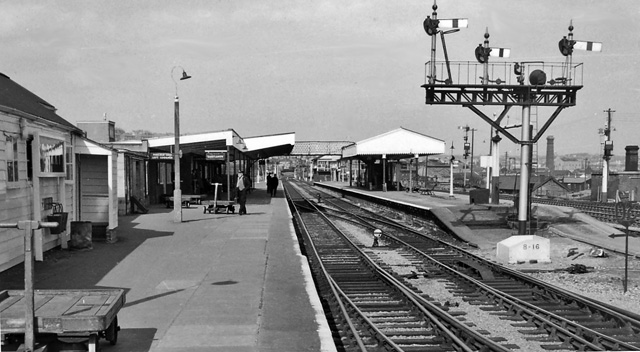 Barry Station. View NE, towards Penarth and Cardiff.